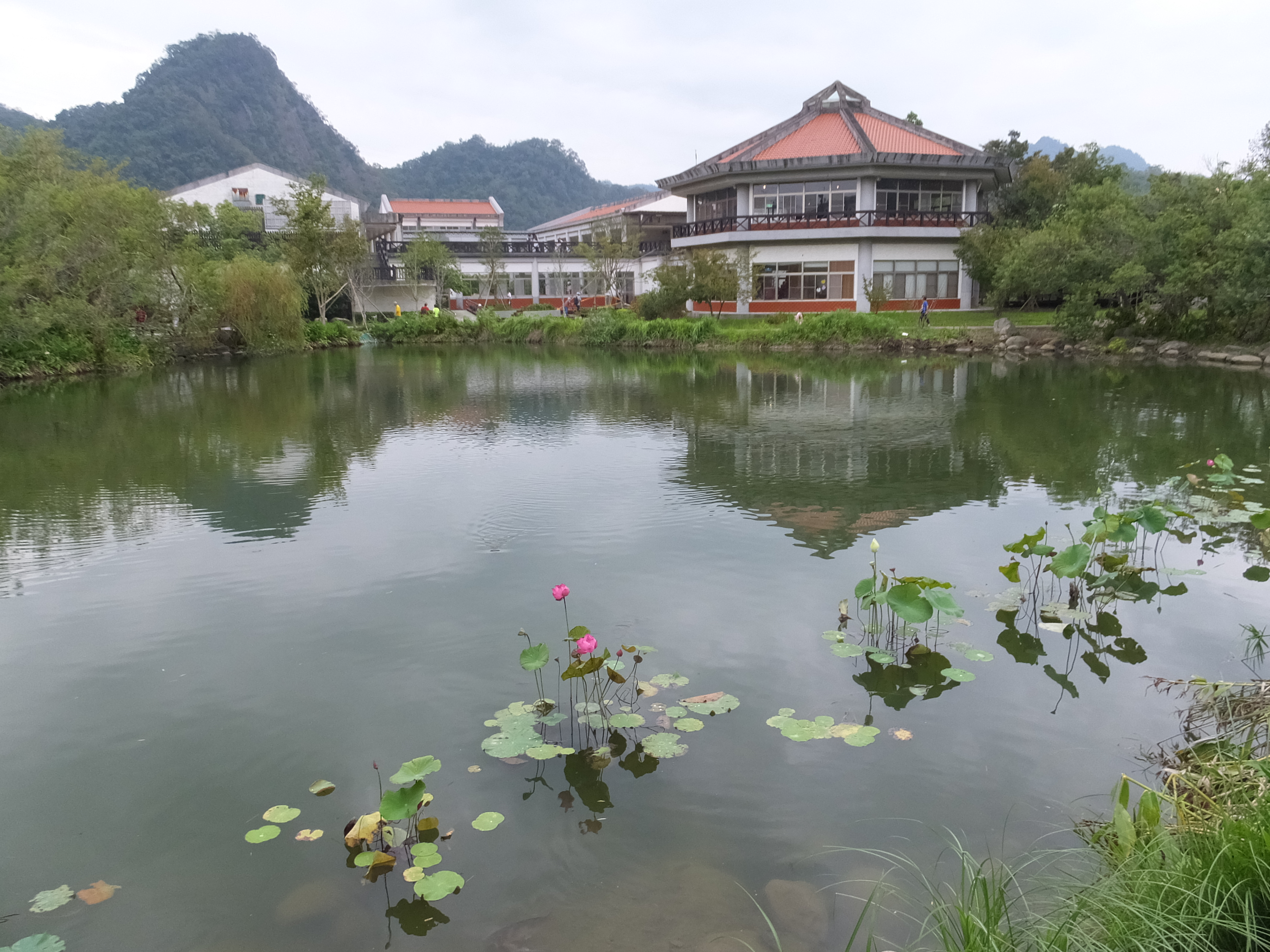 雪霸國家公園遊客中心 Sheipa National Park Visitor Center